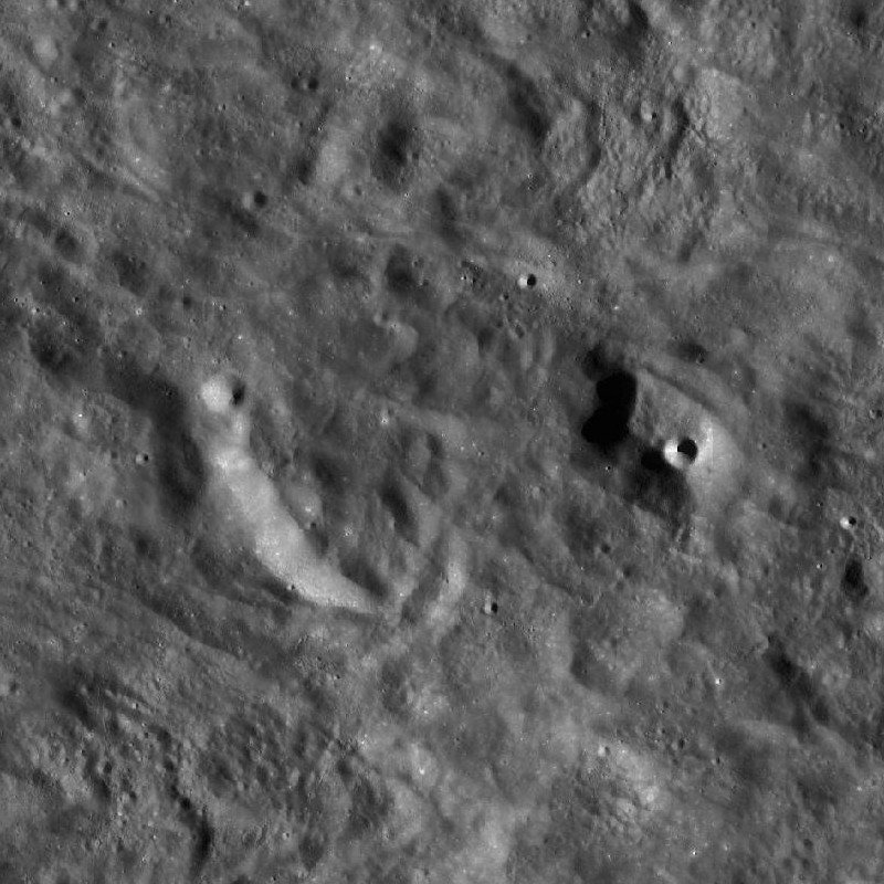 Lewis crater, on the far side of the moon. Mosaic of LRO WAC images.